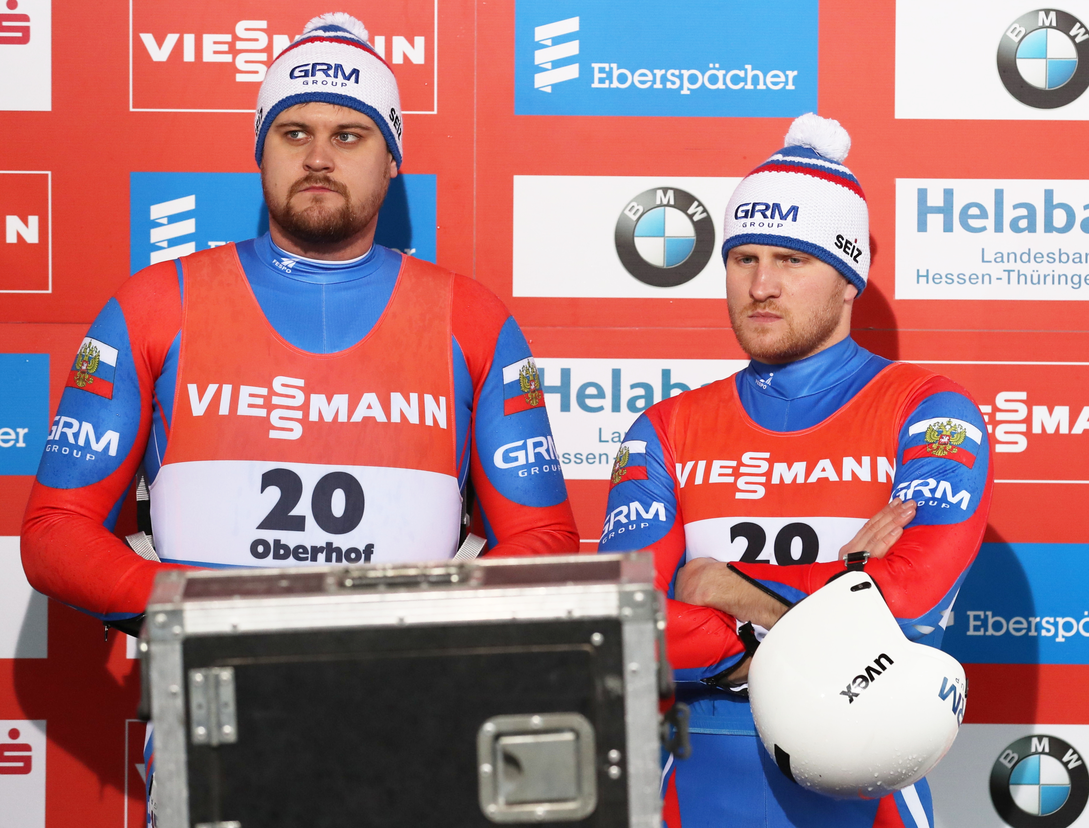 Doubles World Cup at the 2019/20 Oberhof Luge World Cup